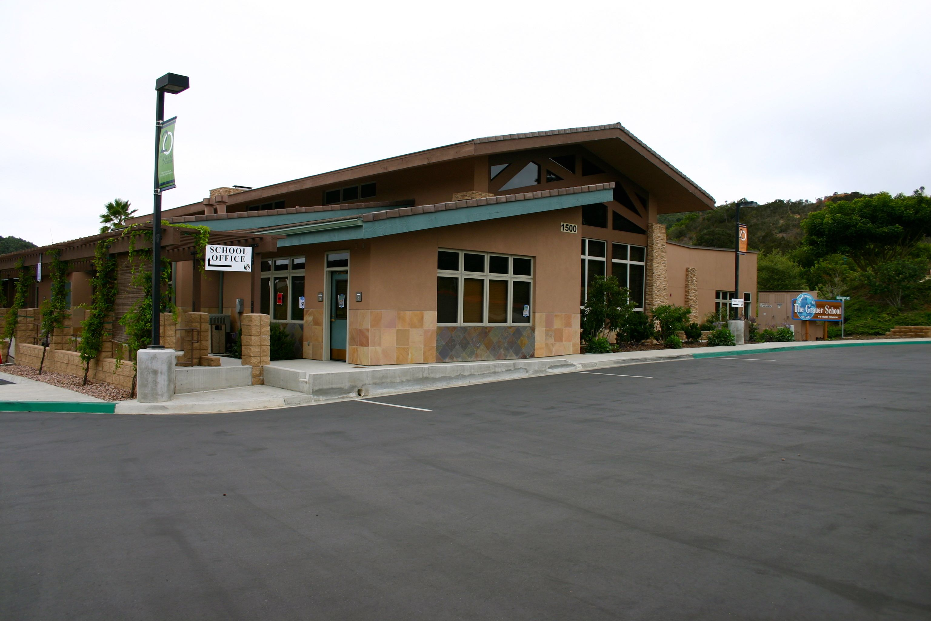 Main building of :en:Grauer School} Object location33° 01′ 43.6″ N, 117° 15′ 21.76″ W